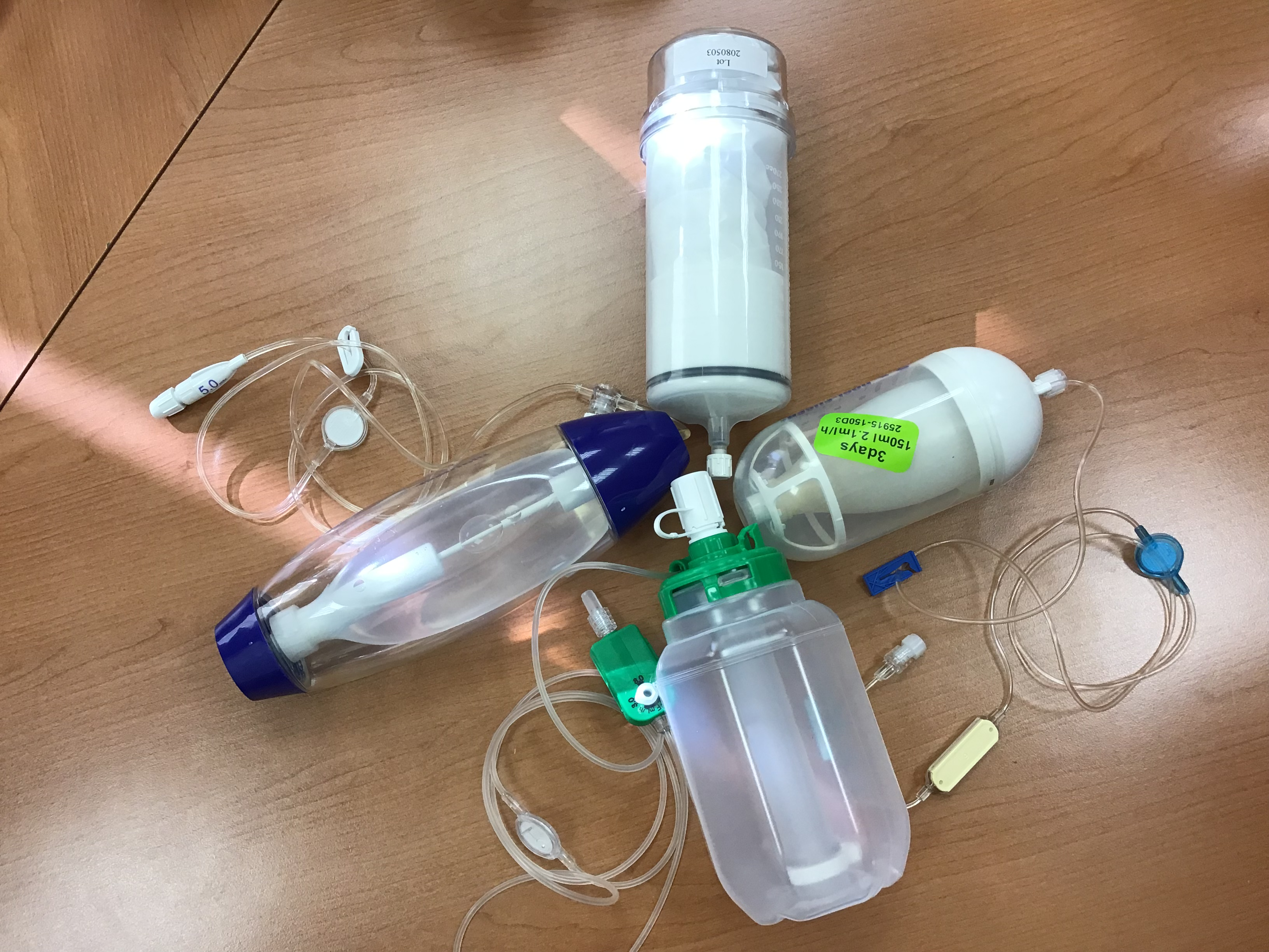 Four different models od elastomeric pumps Srpskohrvatski / српскохрватски: Četiri razna modela elastomerskih pumpi